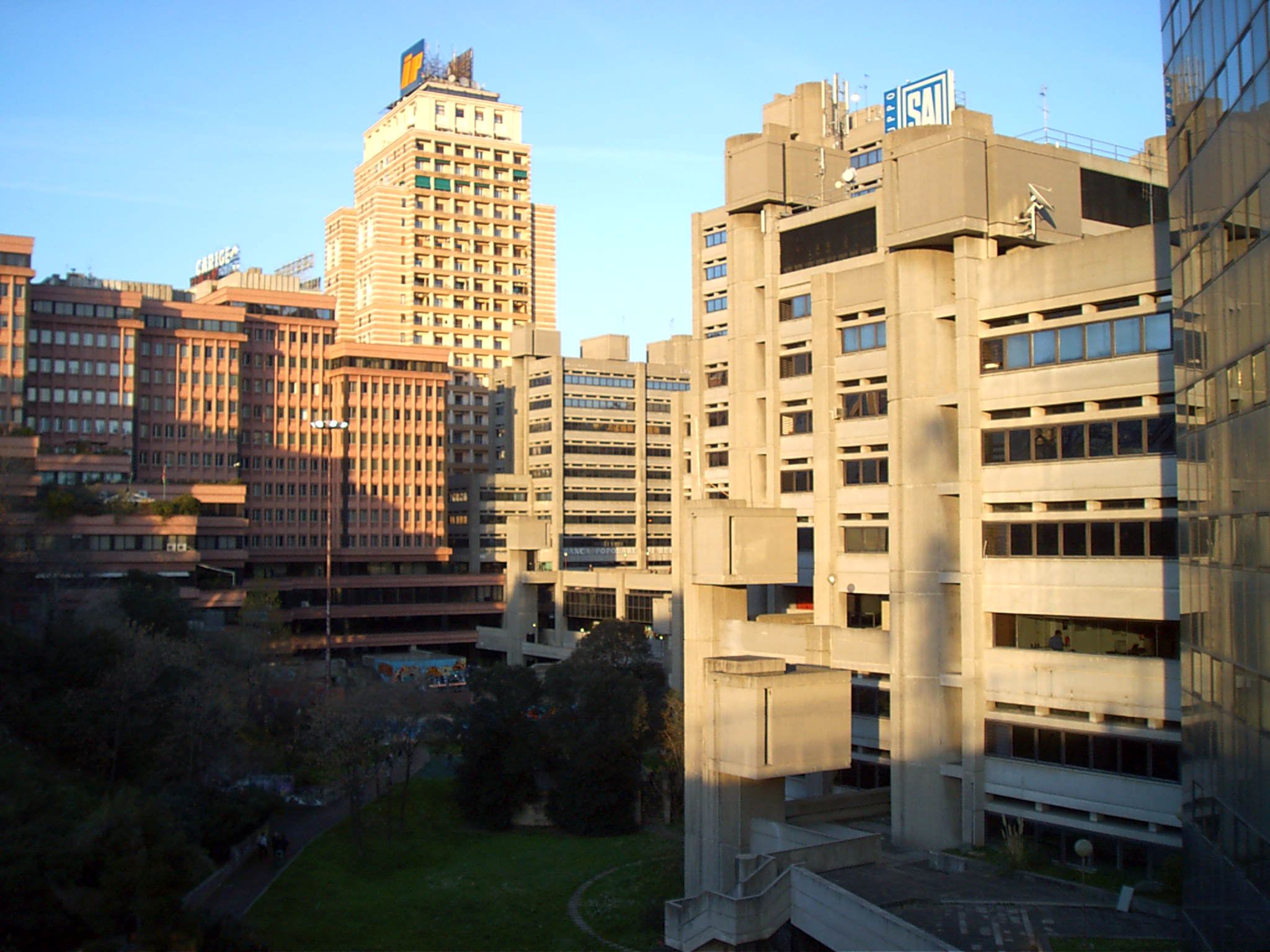 Genoa, the complex of the Ligurian Center and the Skyscraper of the Clock (Torre Piacentini)